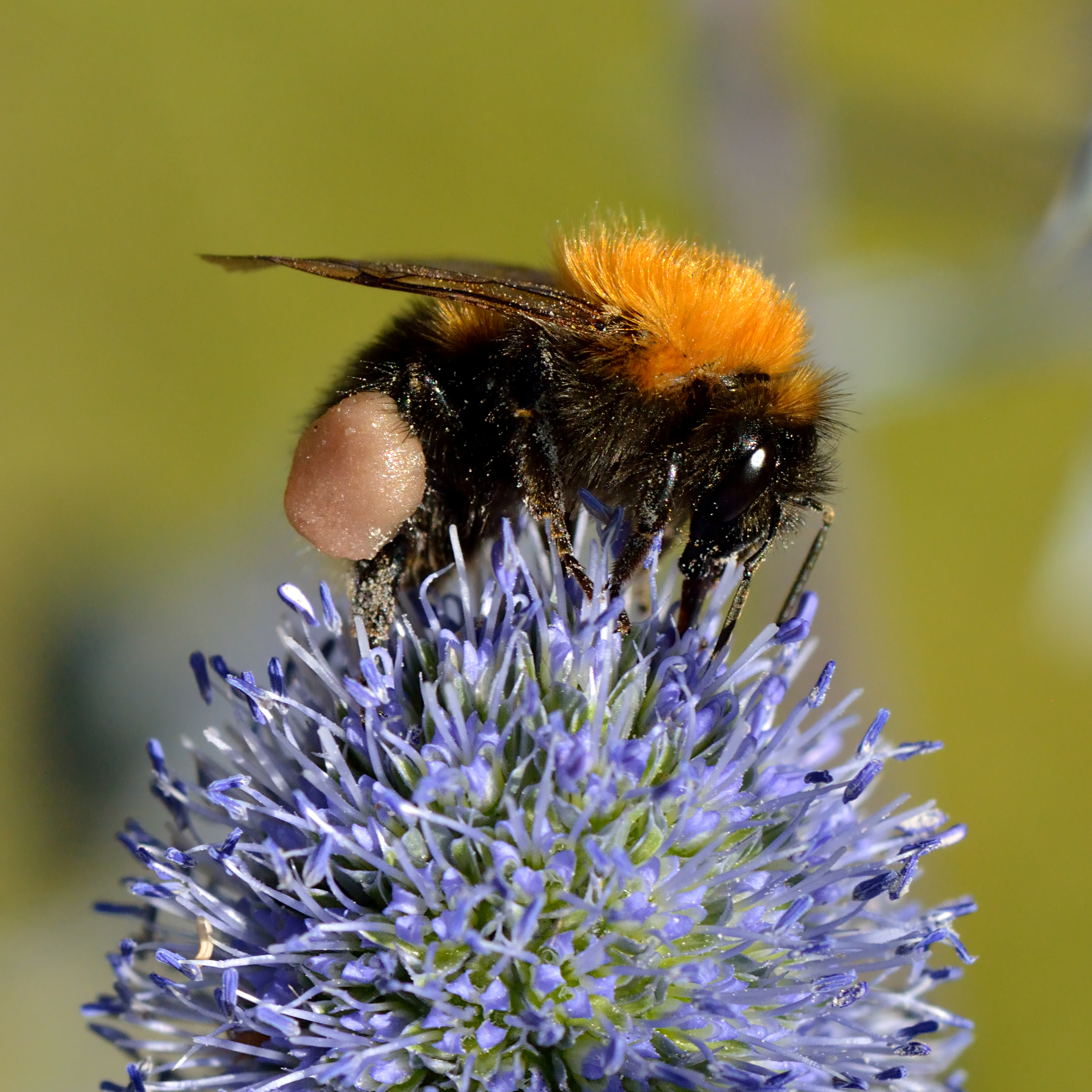 Tree bumblebee (Bombus hypnorum) on the cultivated alpine sea holly (Eryngium alpinum). Keila, Northwestern Estonia.